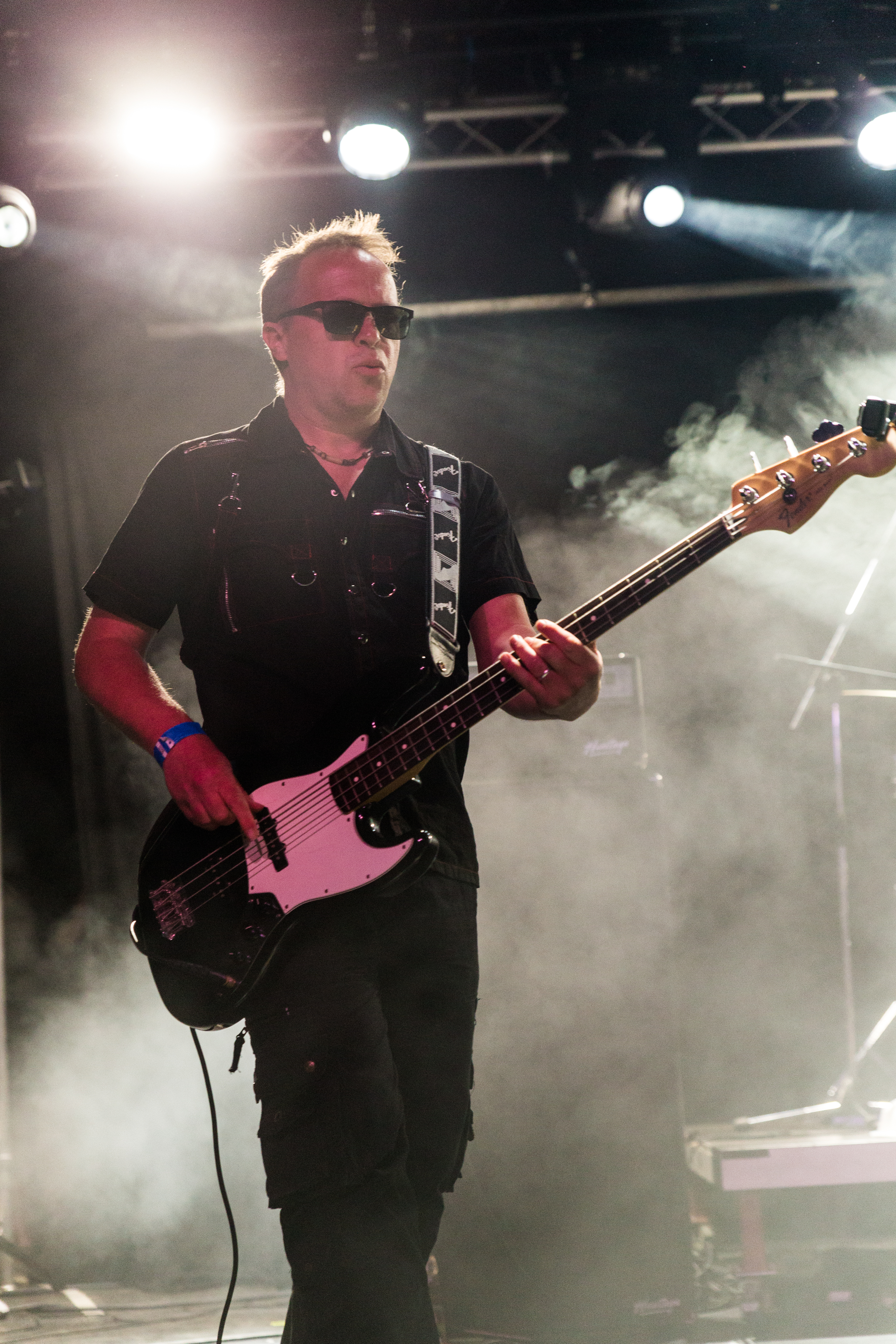 The british gothic rock band Skeletal Family at the Wave-Gotik-Treffen 2017 in Leipzig/Germany (Venue Heathen village).